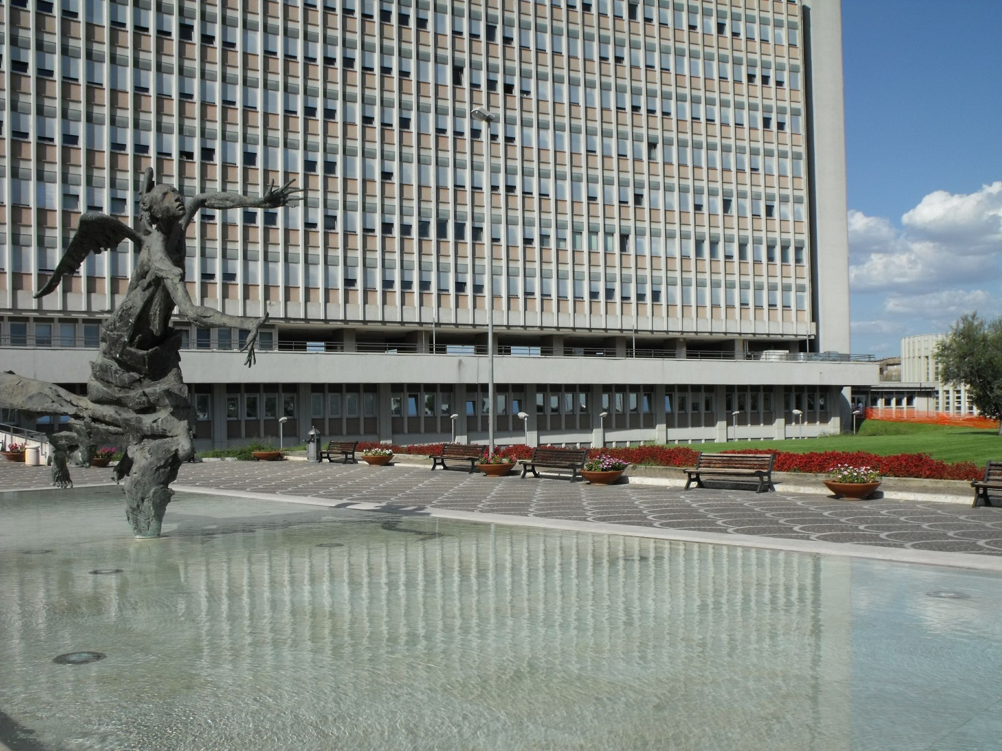 Front view